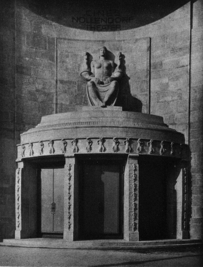 Main entrance of the Cines Nollendorf-Theater, 4 Nollendorfplatz, Berlin, c1913-1914 (later named Ufa-Pavillon). The seated figure above the entrance is by Franz Metzner (1870 - 1919), and the main architect was Oskar Kaufmann (1873 - 1956).